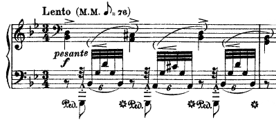 Excerpt from Liszt's Transcendental Etude 6 "Vision"